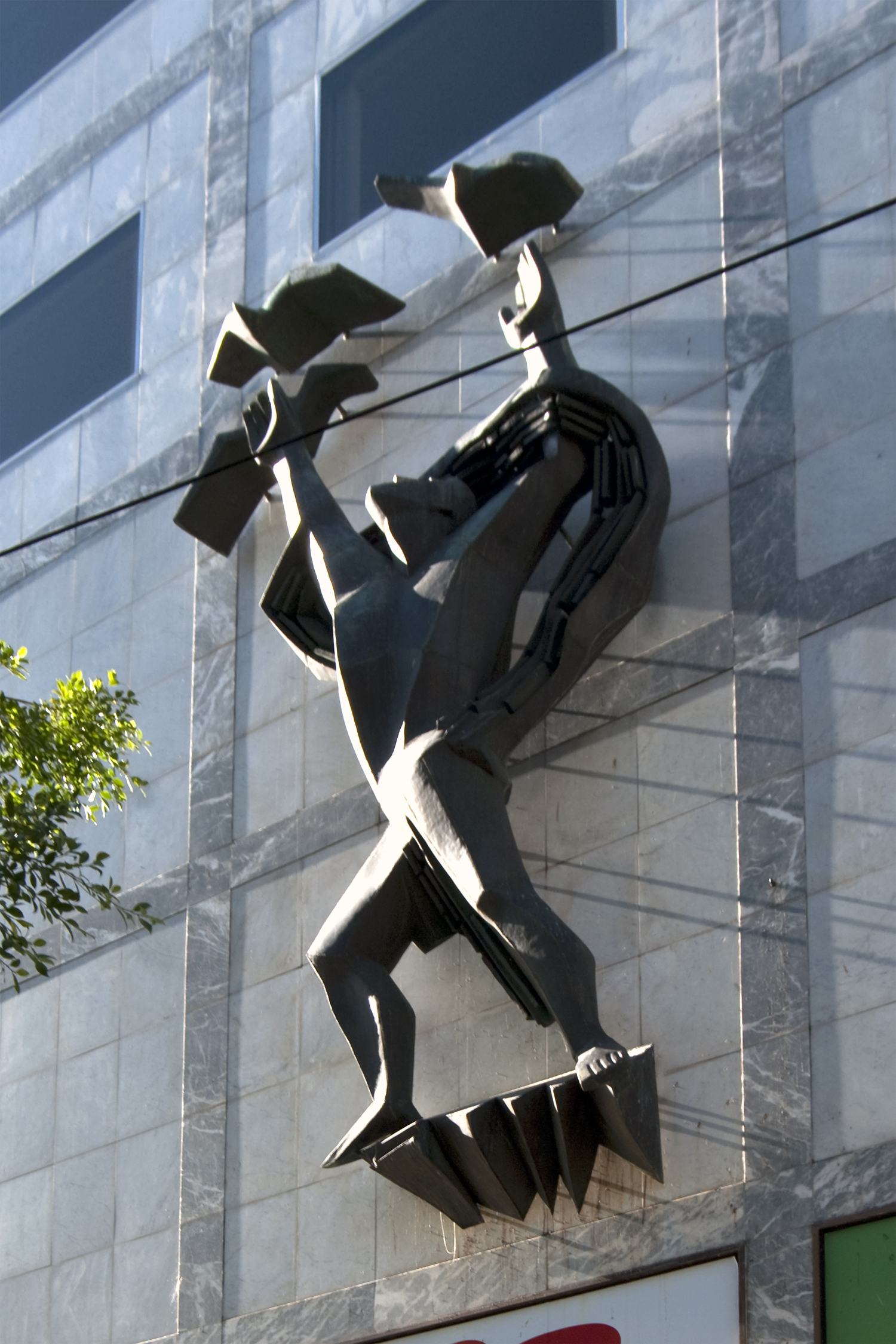 Progress is an artwork by Lyndon Dadswell, located in Rundle Mall, Adelaide, South Australia.